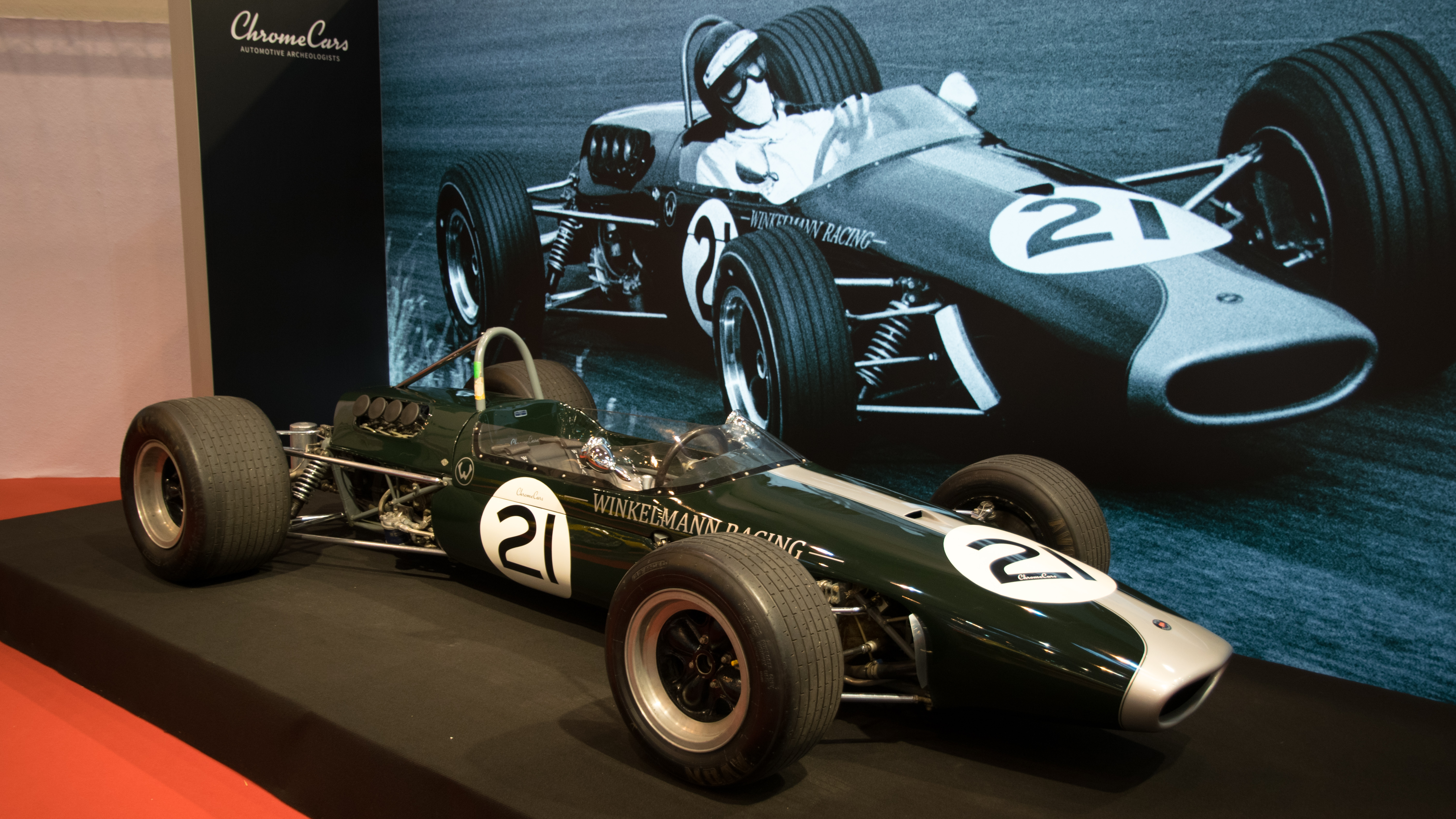 Brabham BT23 (1967) at Essen Motor Show 2017